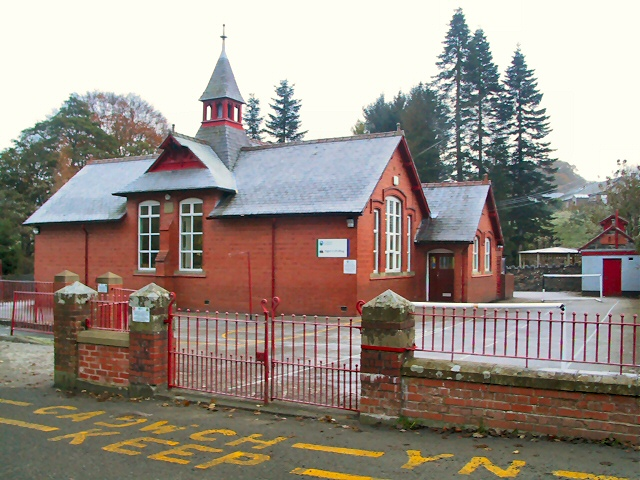 Ysgol Cyffylliog. The junior school at Cyffylliog stands right by the bridge over the Afon Clywedog, of which there is a supplemental image.